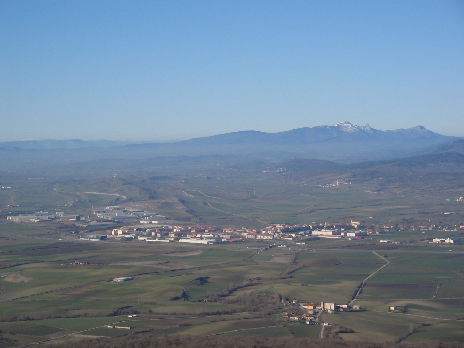 Town Agurain on the Alavese Plains (Basque Country), with mount Gorbea in the far backgroundEuskara: Agurain Arabako Lautadan (Euskal Herria), atzean Gorbeia mendia duela